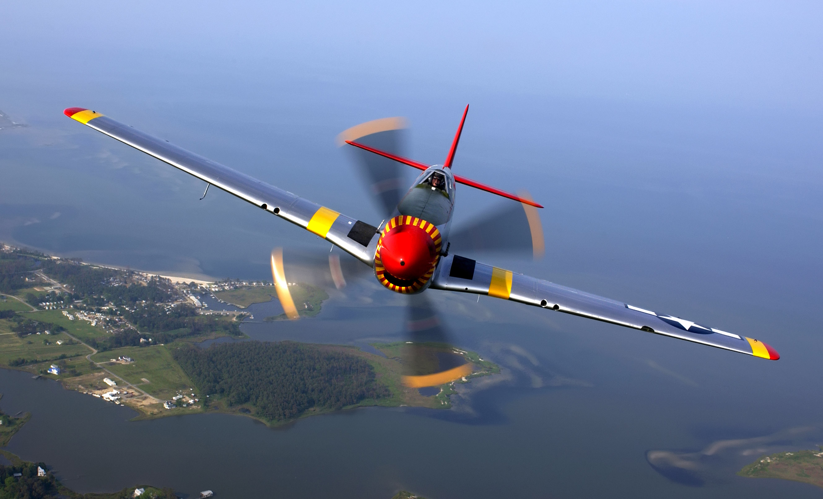 A P-51 Mustang in flight. Image taken during an air show at Langley Air Force Base, in Virginia (USA). Original caption from the American Air Force: "Over Virginia. Ed Shipley flies a P-51 Mustang in a heritage flight during an air show at Langley Air Force Base, Va., on May 21. (U.S. Air Force photo by Tech. Sgt. Ben Bloker)"